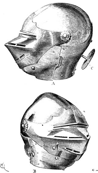 Florentian Armet the difference from classic armet is the way how it opens